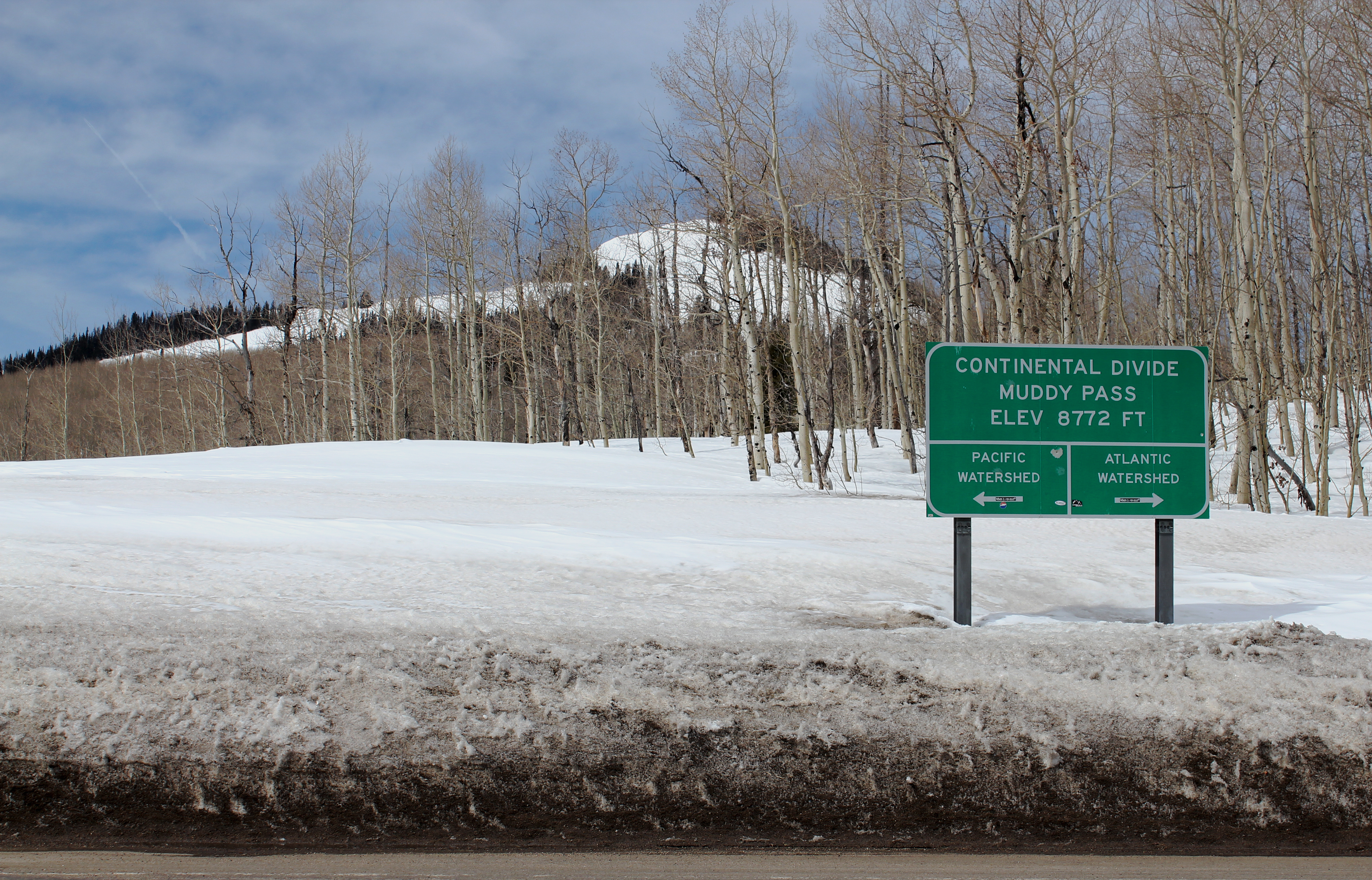 Muddy Pass, on the Continental Divide and on the border between Grand County, Colorado and Jackson County, Colorado. The pass is traversed by U.S. Route 40.